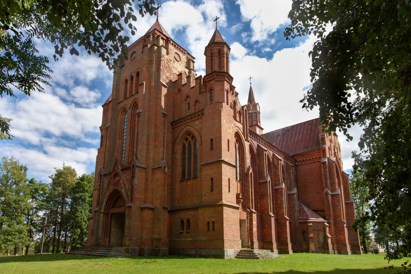 Stulgiai Church 2013 (Kelme district)